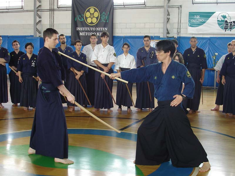 Sassen, first Niten Ichi Ryu Kata, executed by Sensei Jorge Kishikawa